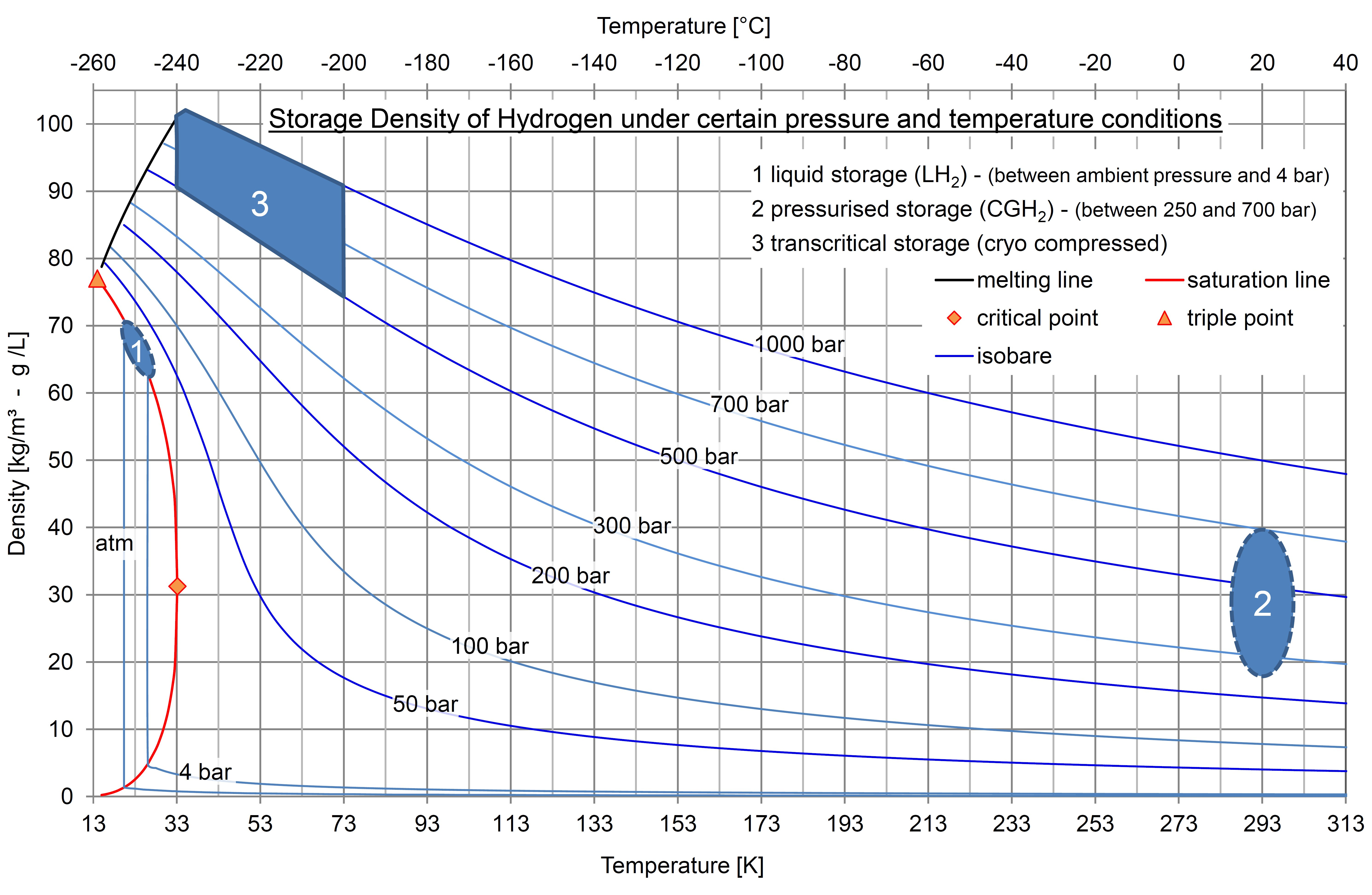 Storage Density of Hydrogen under certain pressure and tempeature conditions. (1) liquid storage - LH2, (2) pressurised storage CGH2, (3) transcritical storage (cryo compressed)